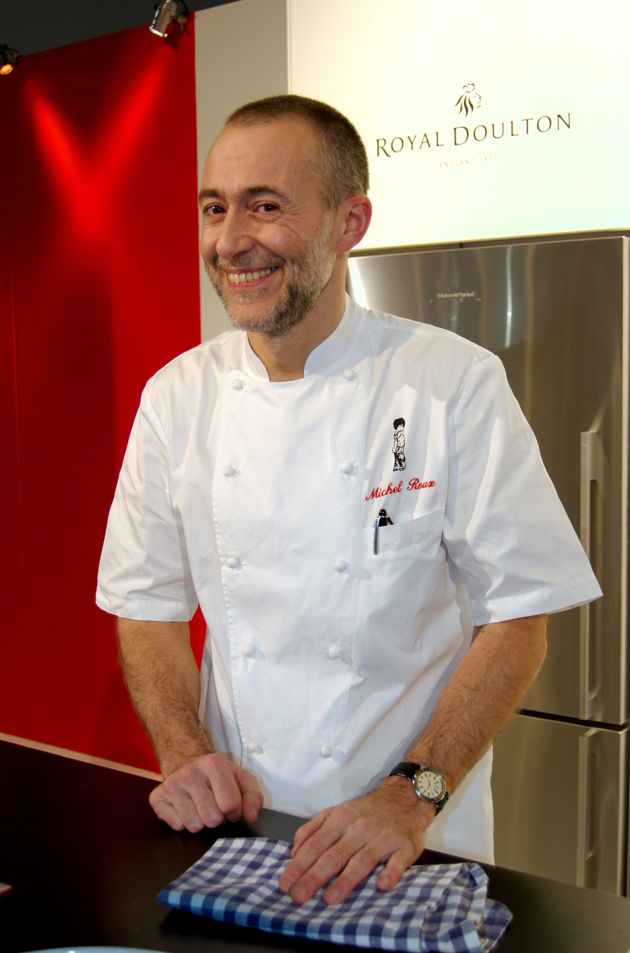 Michel Roux jr, at the Taste of Christmas Festival in London Dec 2008